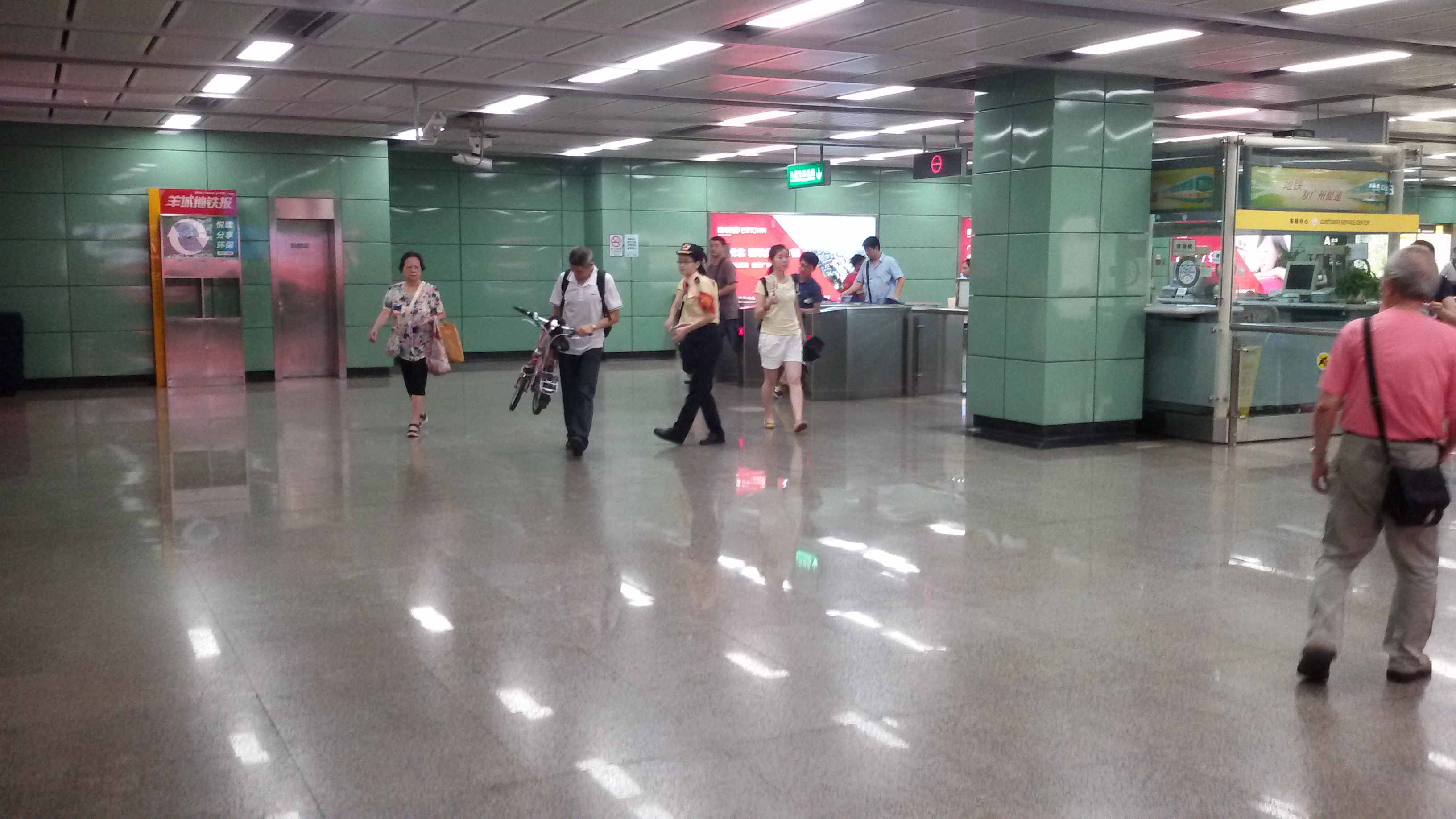 Southern Concourse for Yuexiu Park Station 粵語: 越秀公園站嘅南站廳